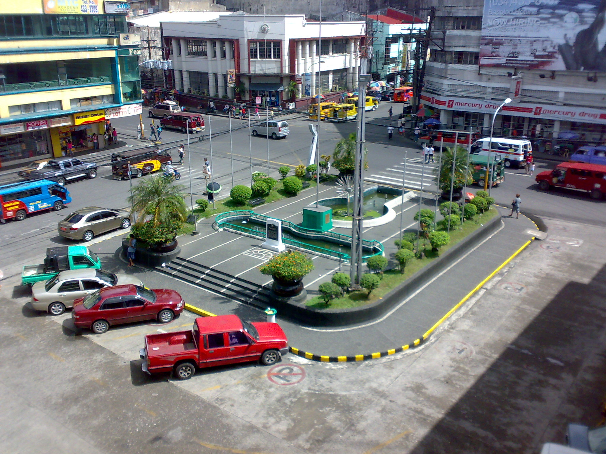 The Fountain of Justice in Bacolod City, Philippines. Photo taken from the top floor of the old City Hall building.